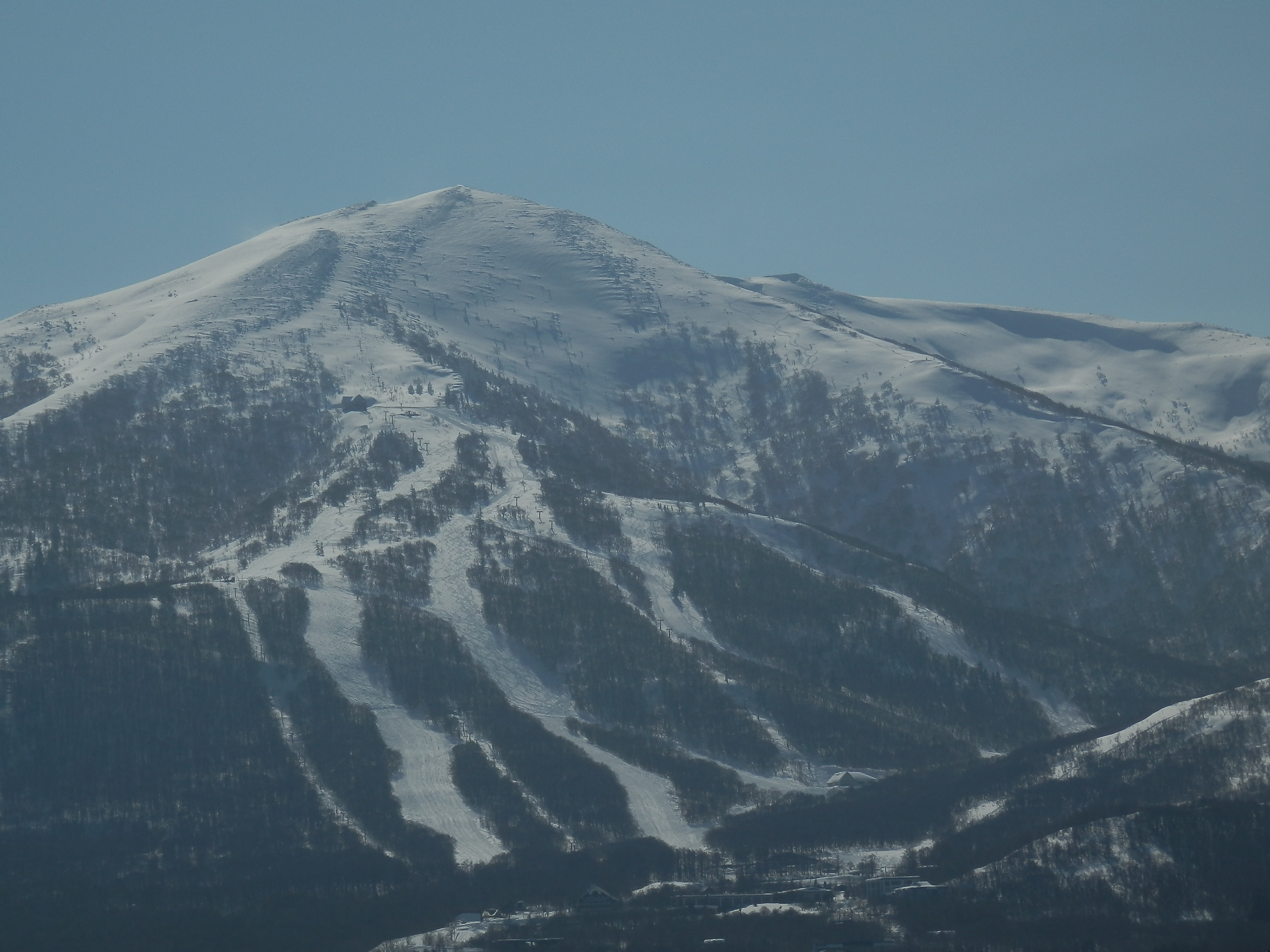 Mount Iwanai seen from the North.